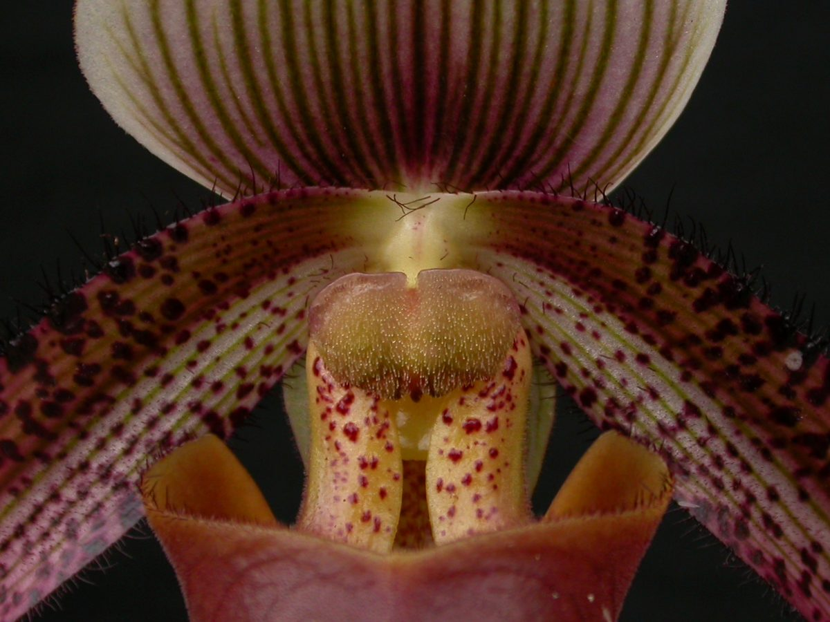 Paphiopedilum ciliolare staminoide detail